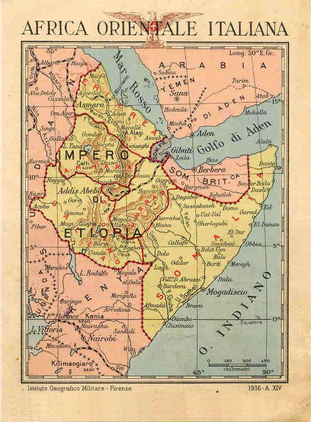 Map of Italian East Africa with governatorates boundaries, 1936